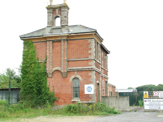 The Old Raydon Railway Station The old Raydon railway station now a solid fuel distribution centre for more info on the railway